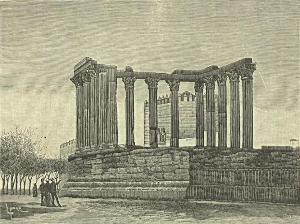 Drawing of the Roman Temple at Évora, in Portugal. This drawing shows how the building appeared after major works to remove all the additions after the fall of the roman empire, restoring it to its original form. This image was originally published in the Occidente magazine No. 420, of the 21st August 1890, and scanned by the Hemeroteca Municipal de Lisboa.